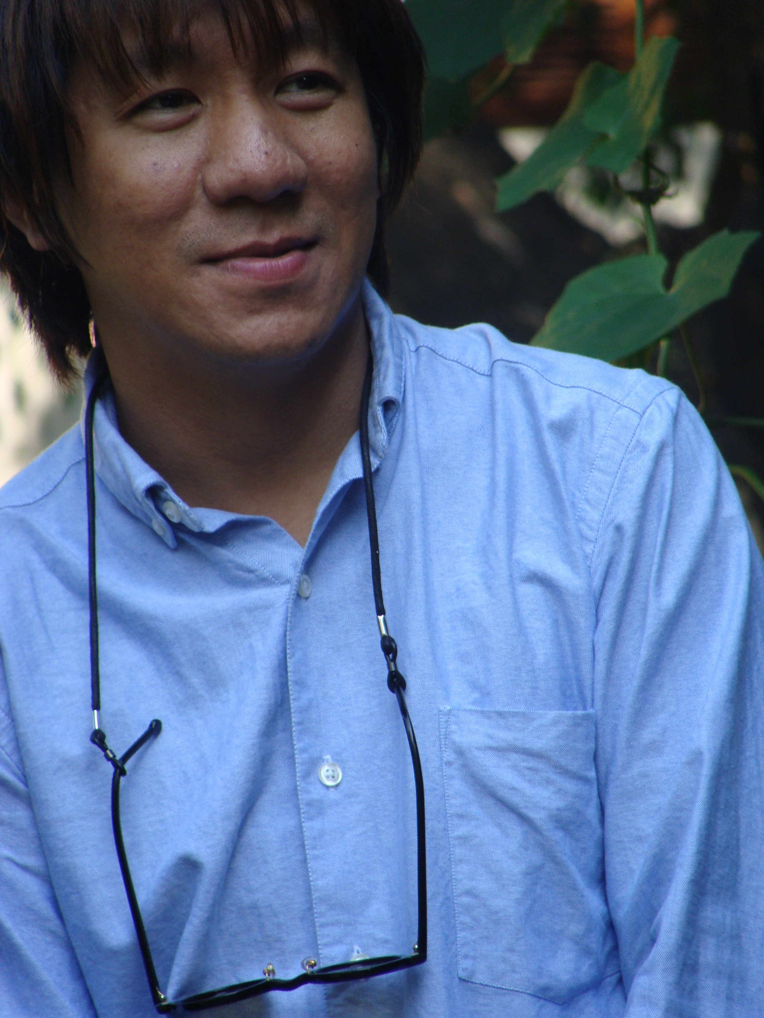 Udom Taepanich at his iberry homemade ice-cream shop, Sirimankalajarn road, Chiangmai.